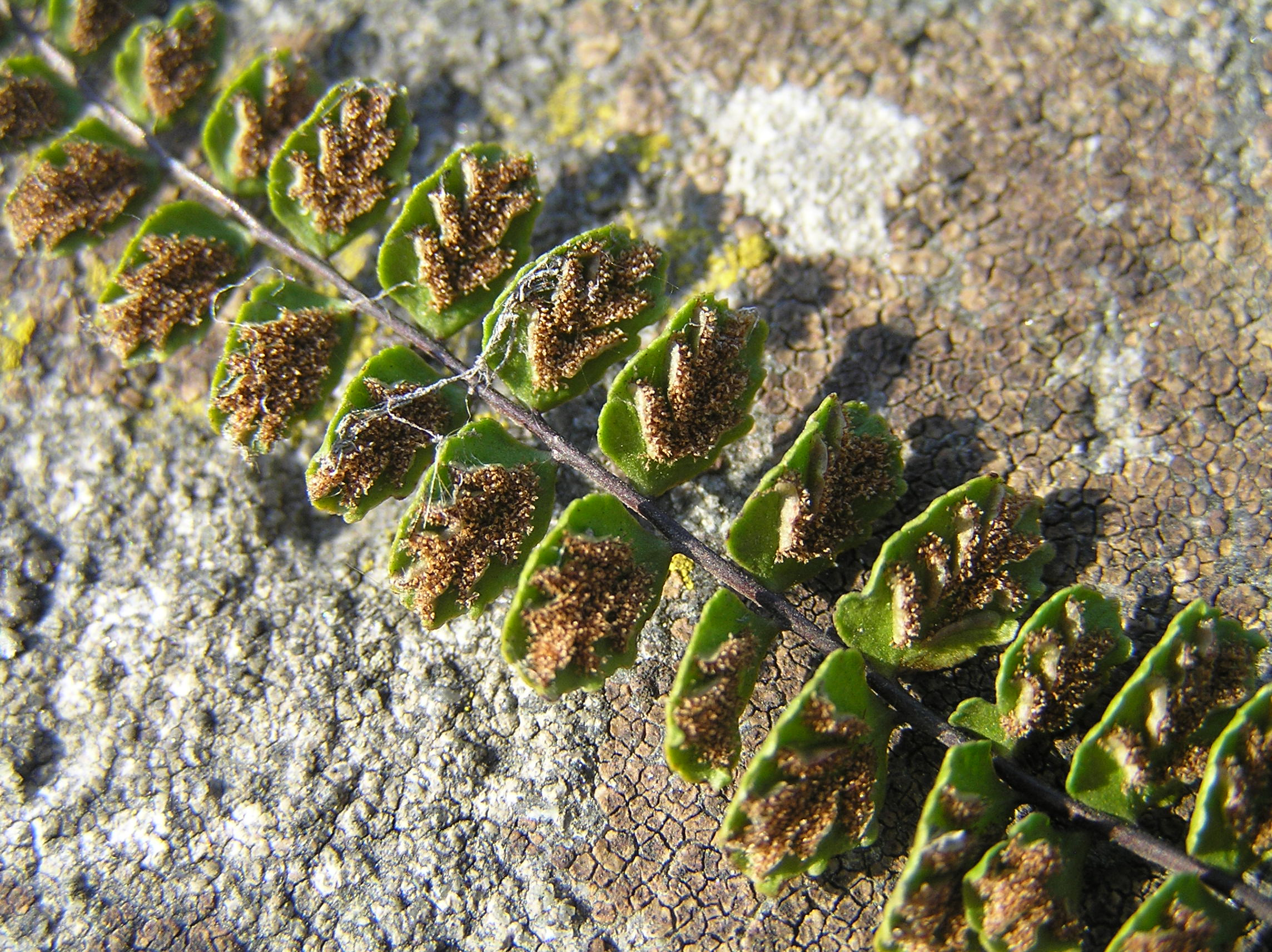 Aspelnium trichomanes, Choceň, Czech Republic